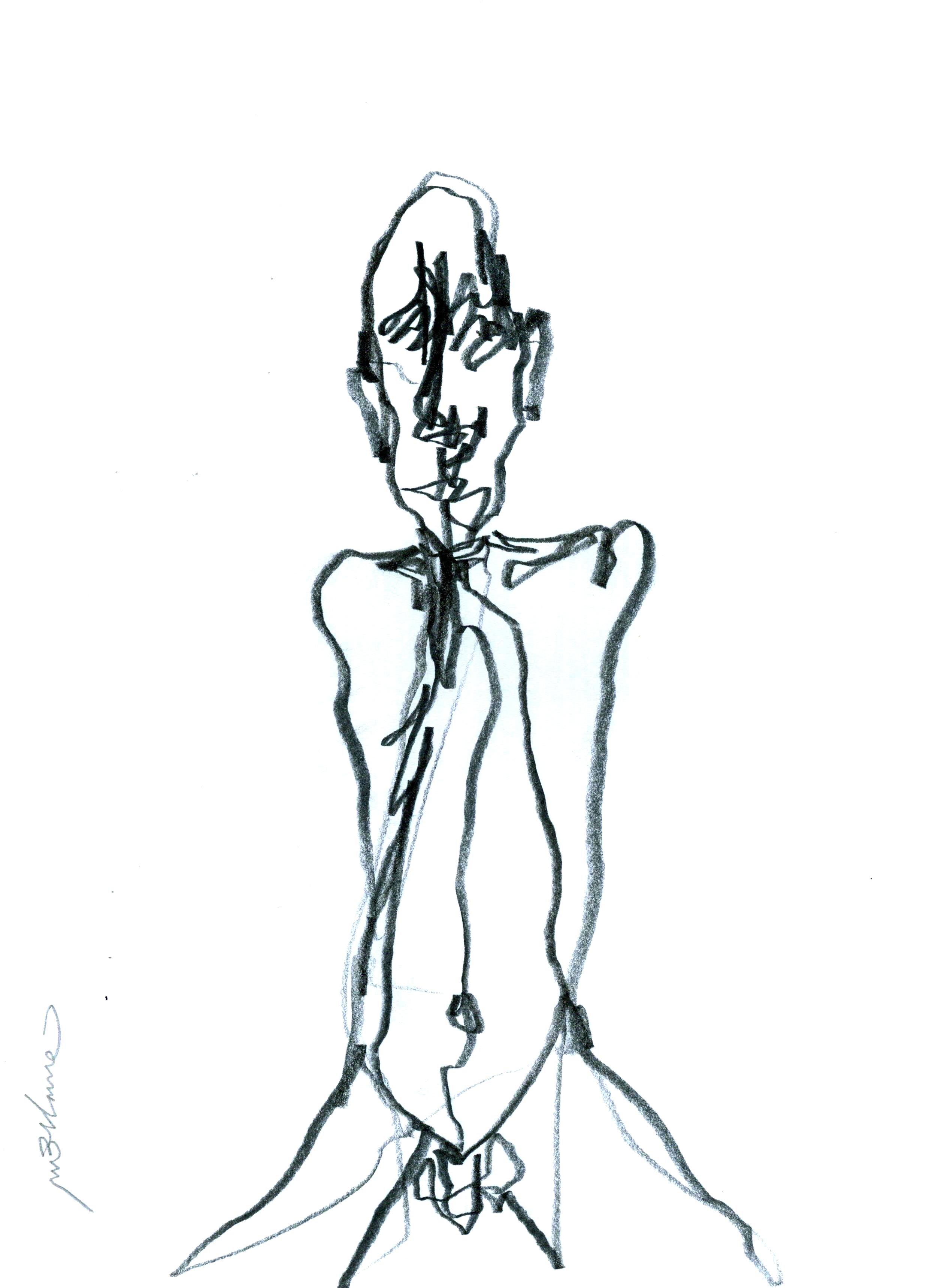 Artwork of Carmit Weizman